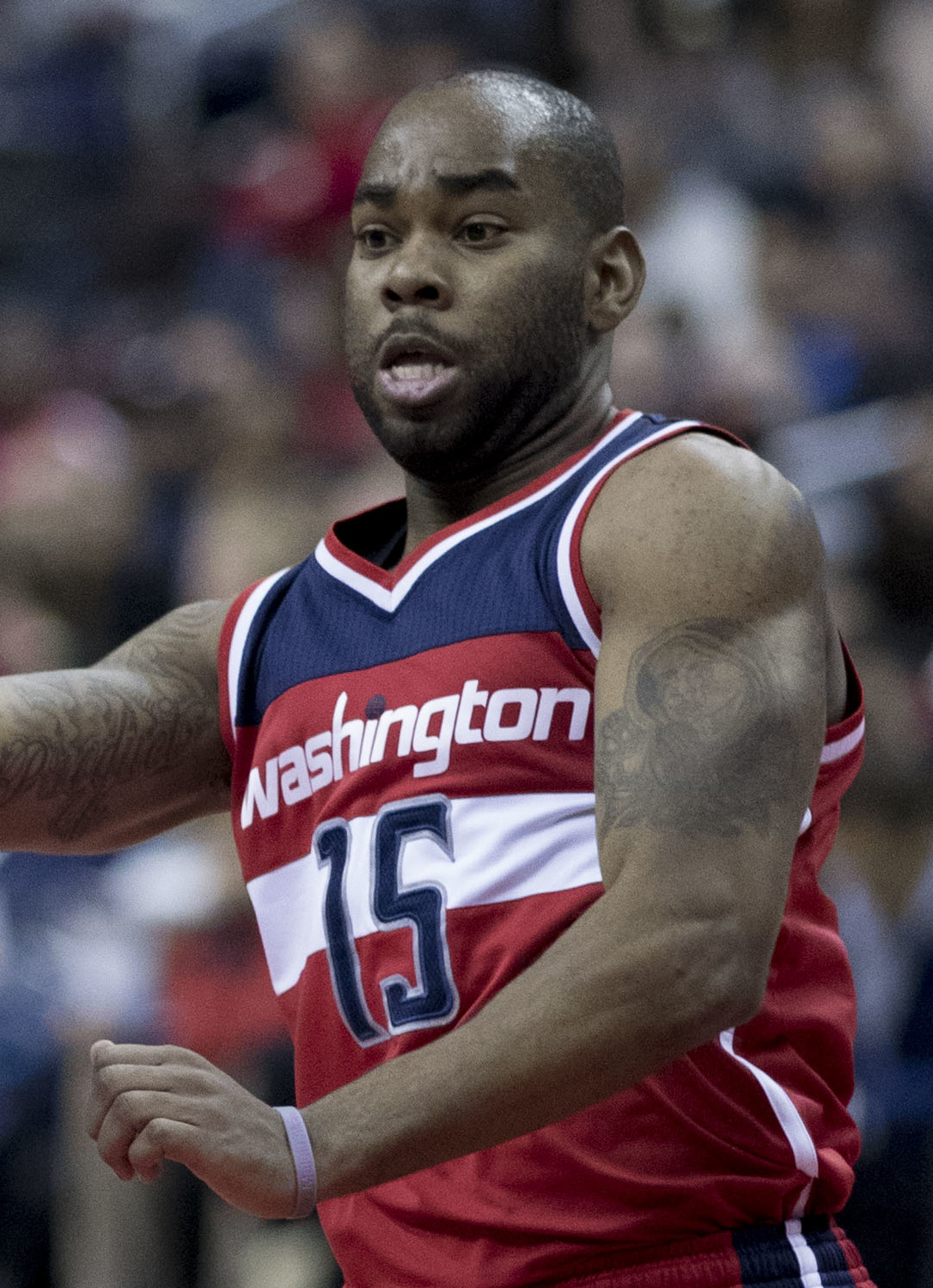 Pistons at Wizards 12/16/16